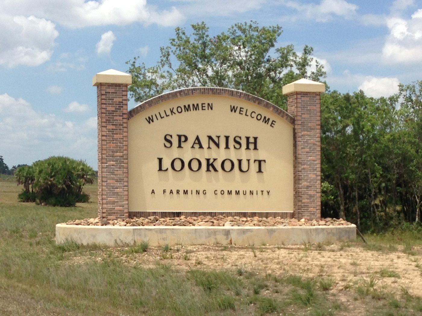 Welcome sign in Spanish Lookout, Belize